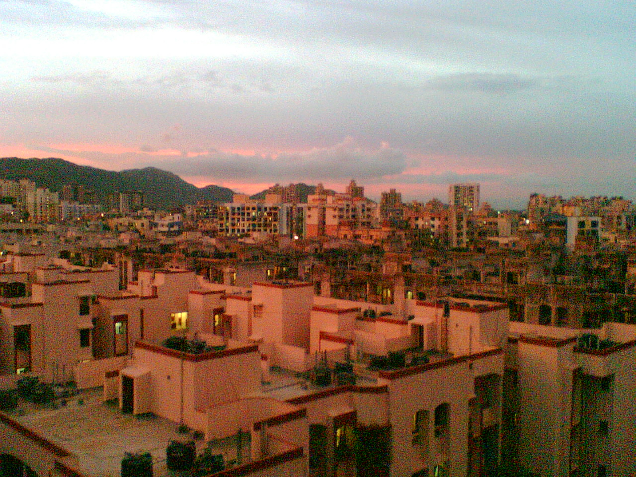 Picture of Kendriya Vihar taken from balcony of a building using mobile Nokia 3230